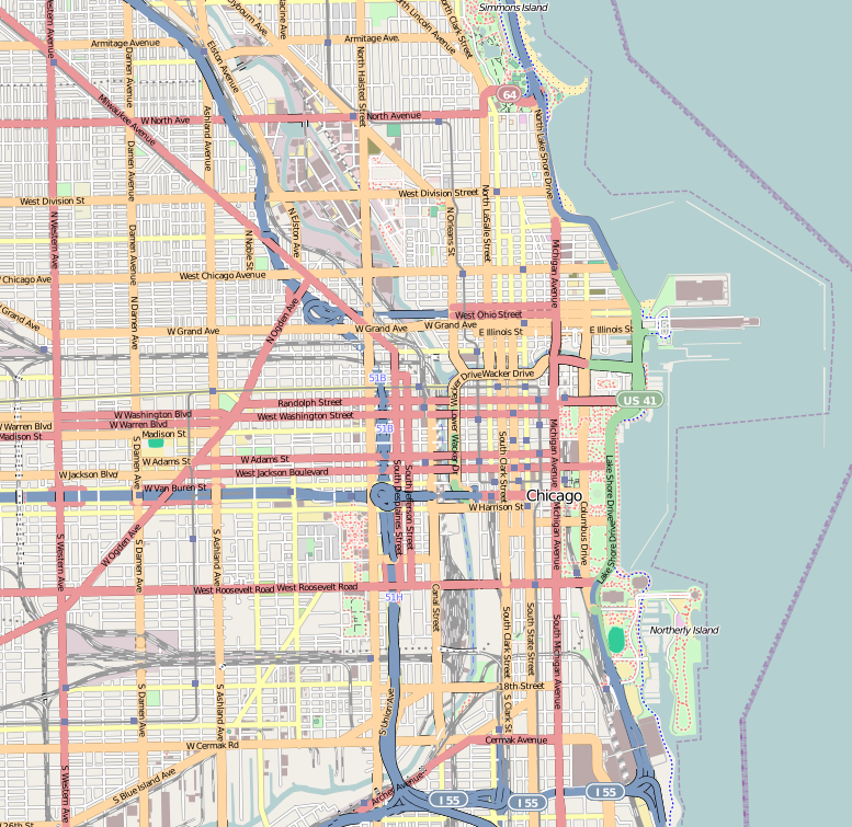 This map of Chicago was created from OpenStreetMap project data, collected by the community. This map may be incomplete, and may contain errors. Don't rely solely on it for navigation. Border coordinates41.9218-87.6937←↕→-87.587141.8447